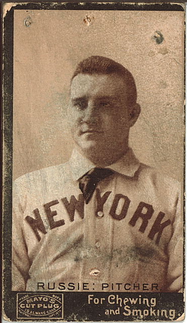 Amos Rusie on an 1895 Mayo Tobacco Works baseball card (Mayo's Cut Plug N300).